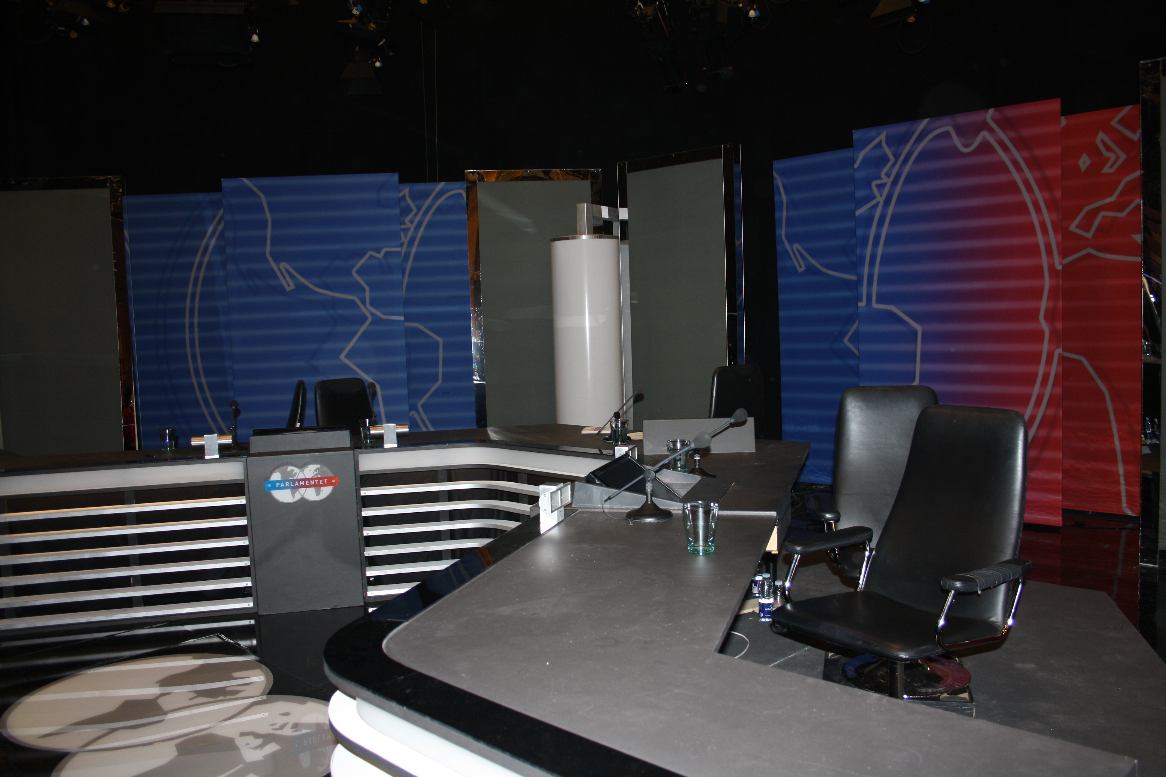 Photo taken from Swedish TV-show Parlamentet.